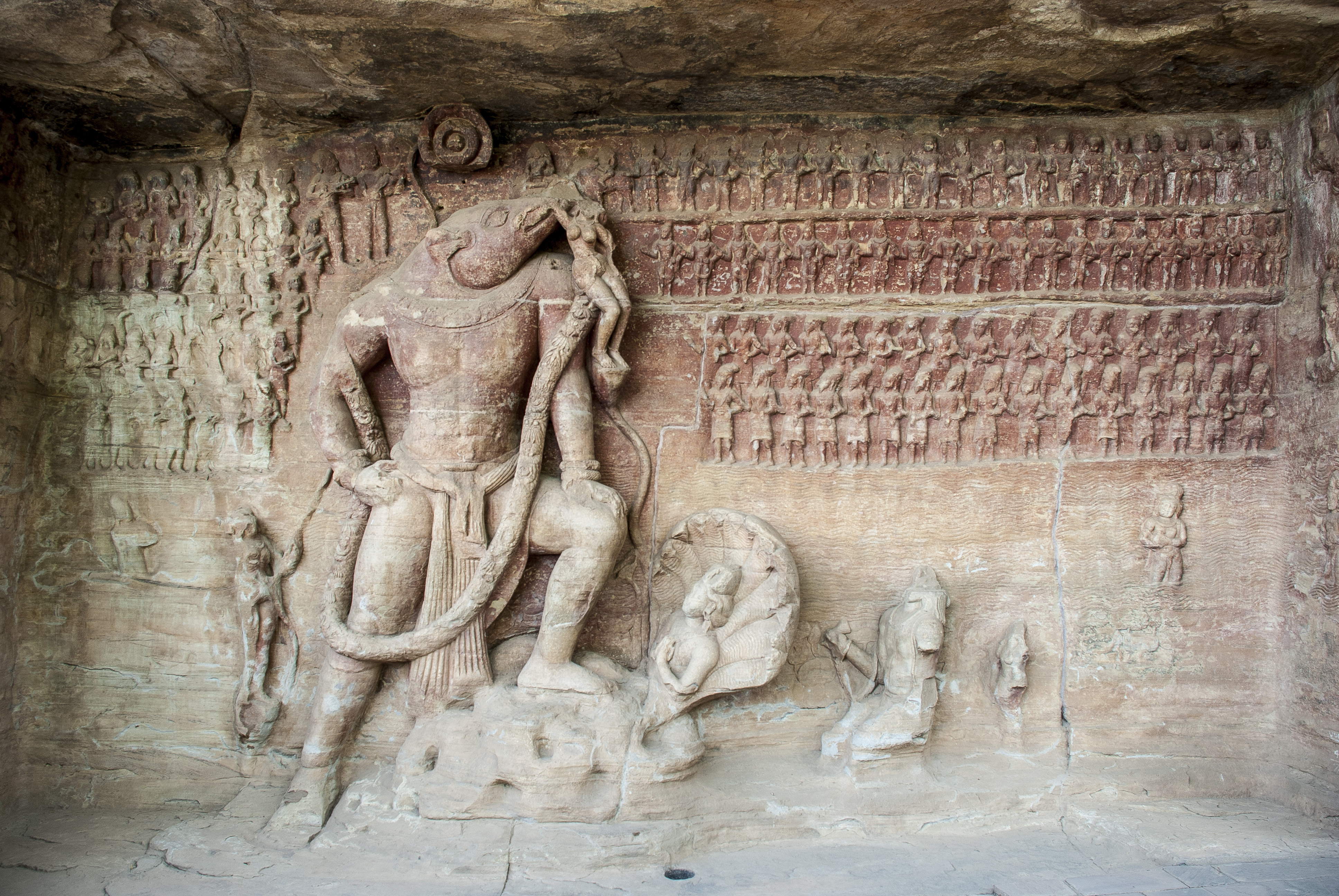 Varahavtar Panel Cave 5